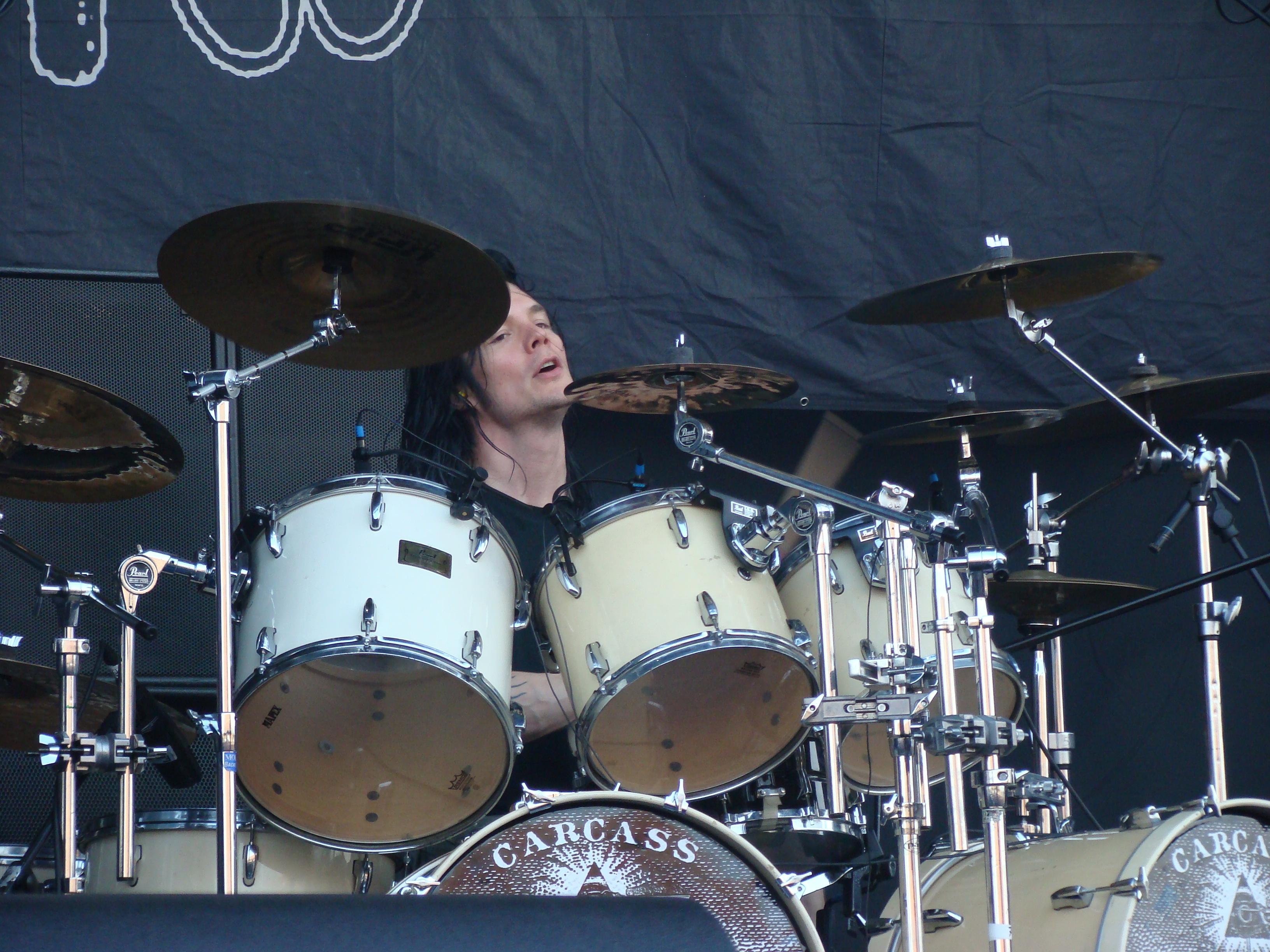 Daniel Erlandsson, drummer of Carcass, live at Gods of Metal 2009.